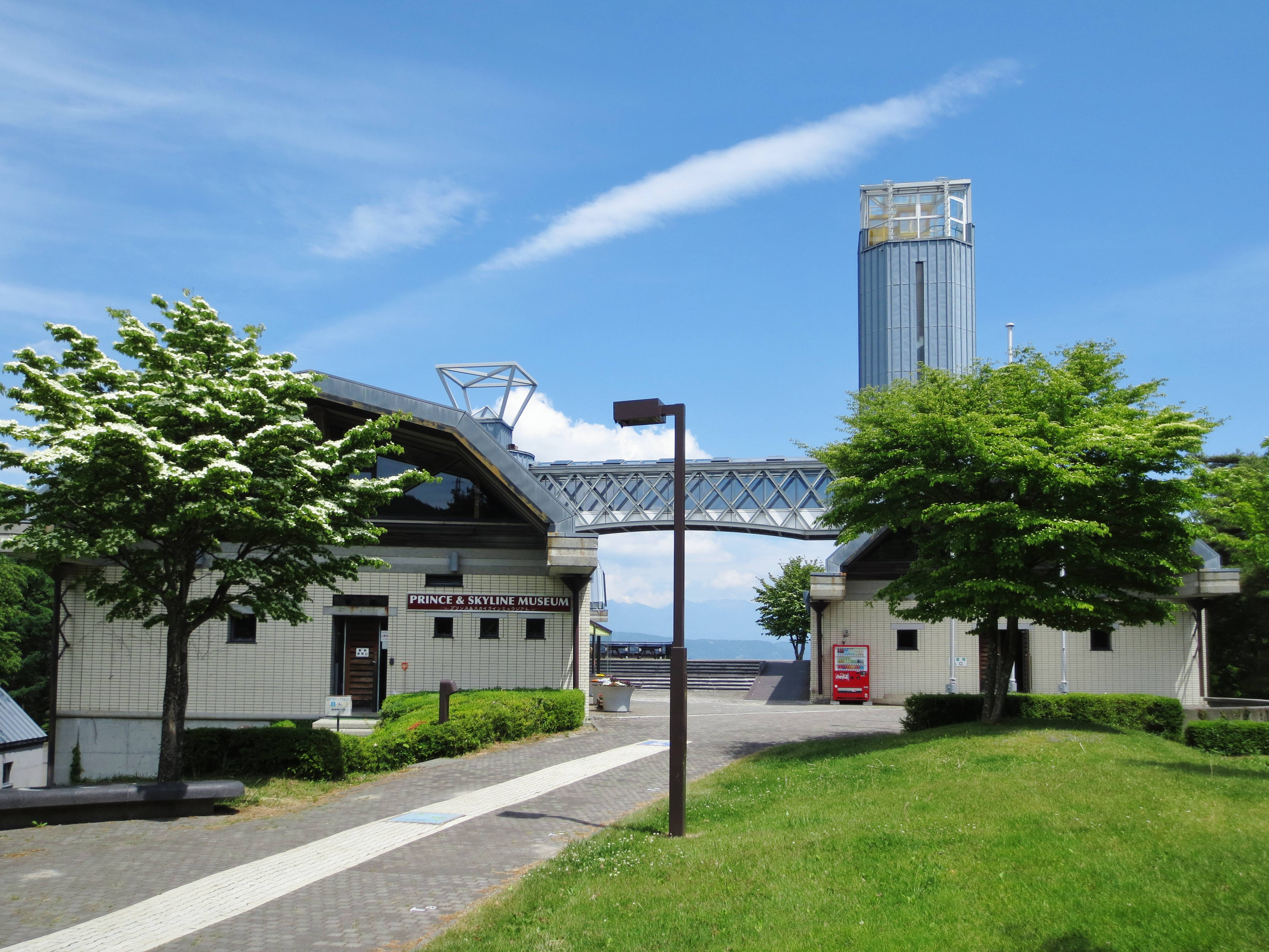 Toriidaira Yamabiko Park observation tower (right) and Prince & Skyline Museum (left).